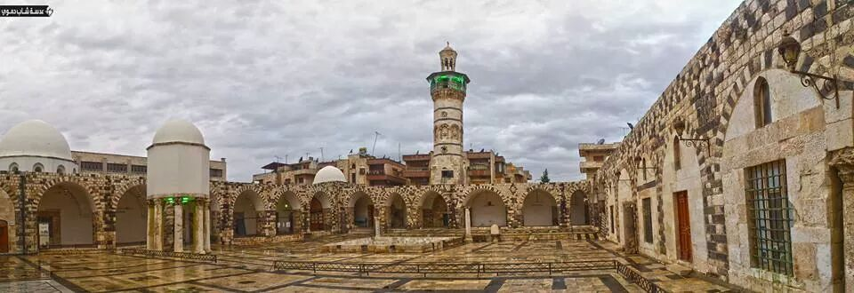 one of the oldest Mosques in the history of Islam